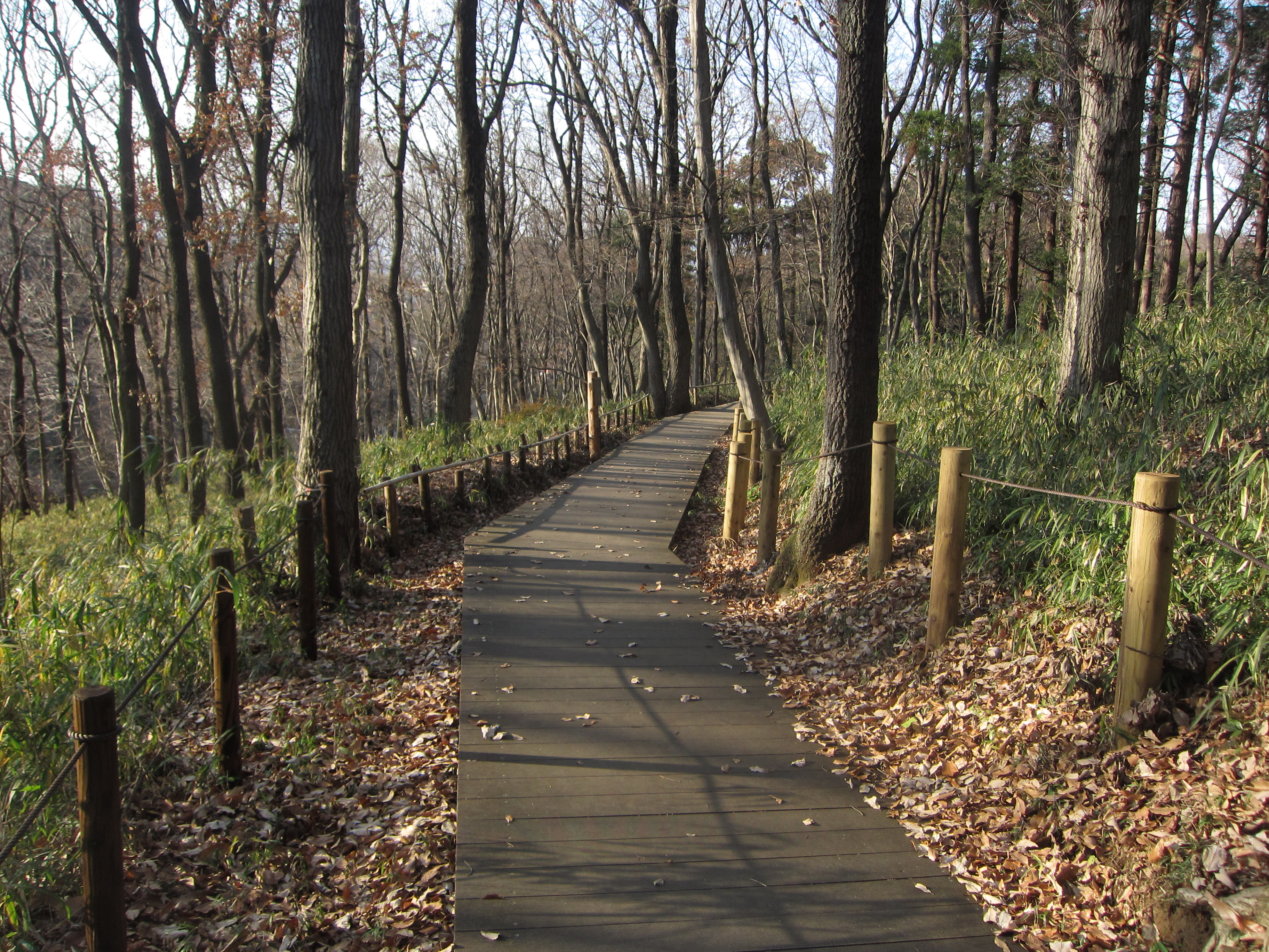 Walkway in Yatoyama Park, Kanagawa, Japan